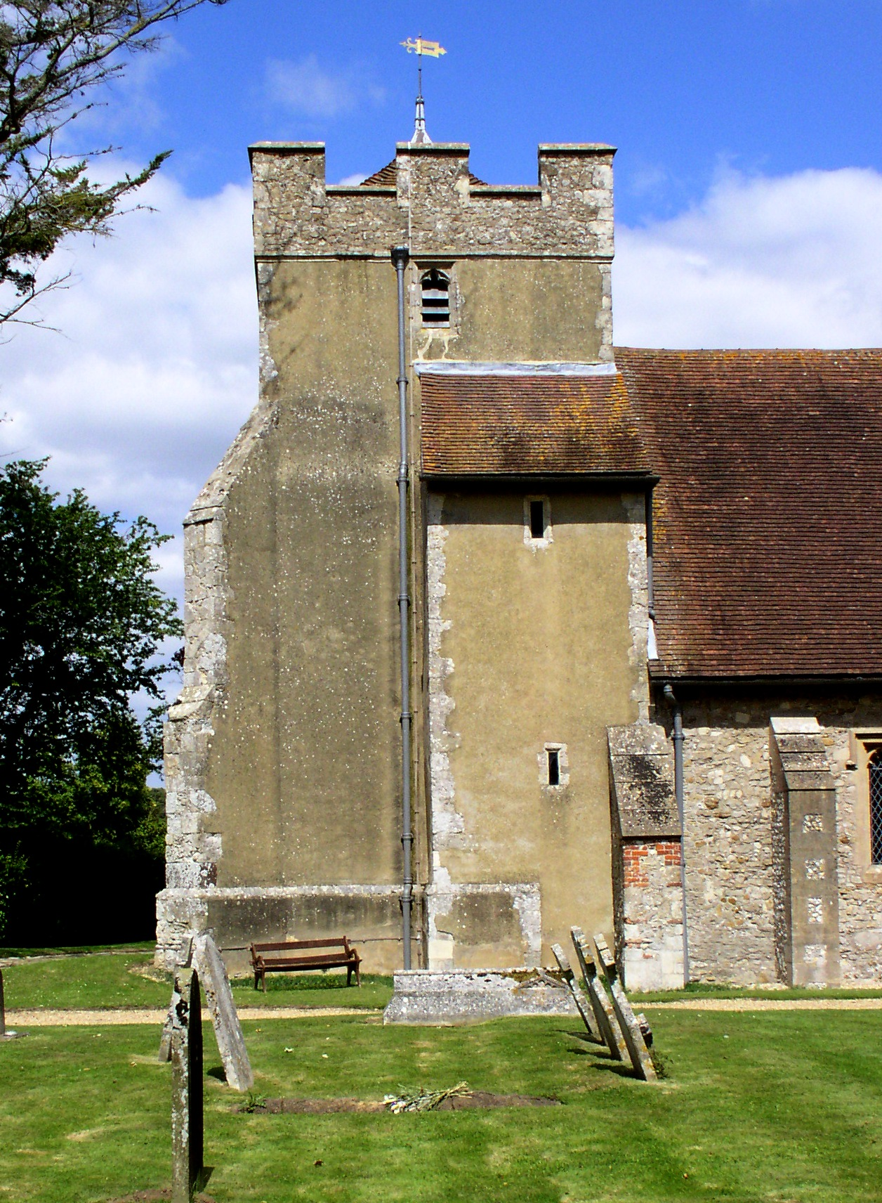 The tower of St James' Church, Birdham